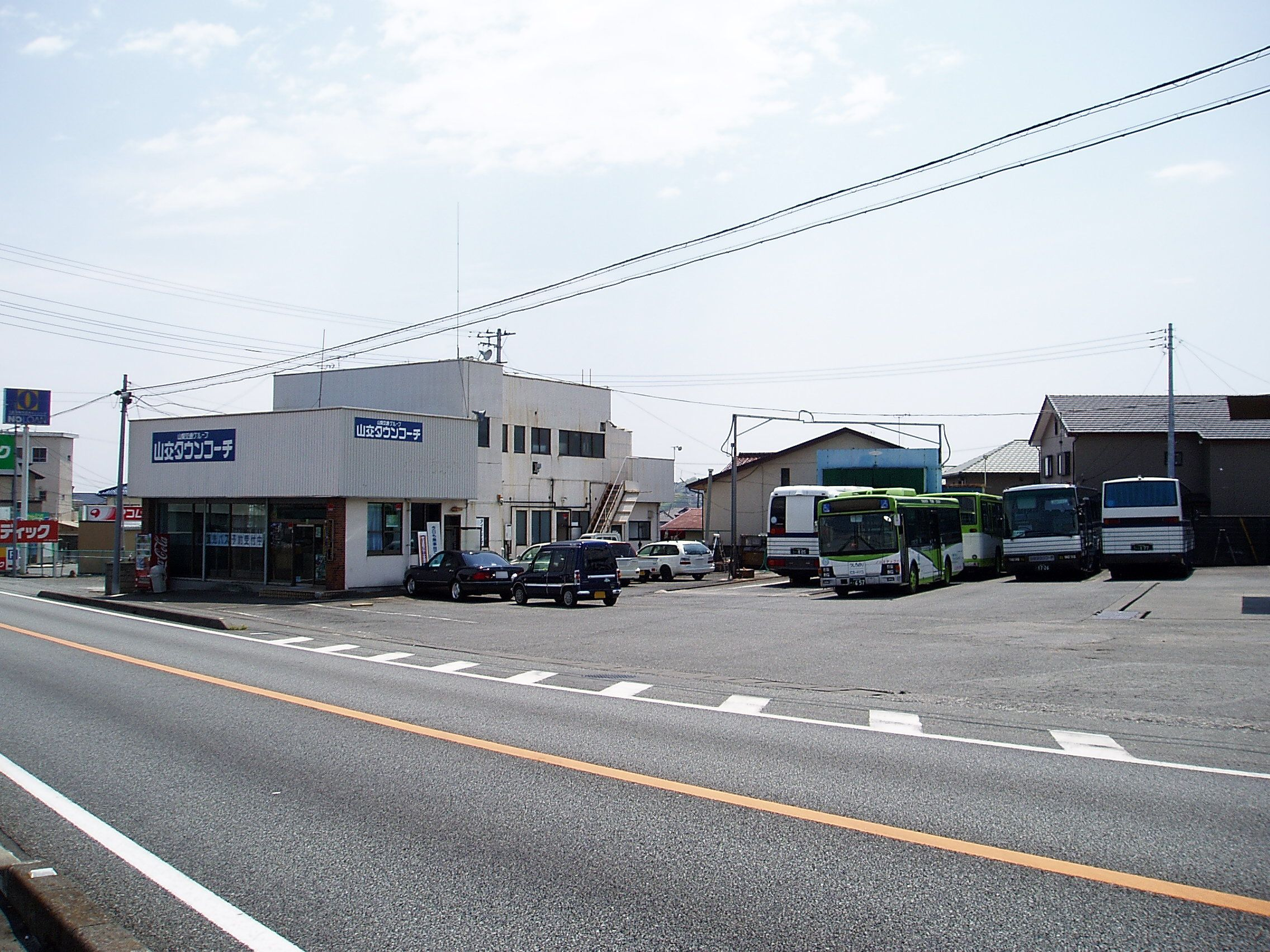 Yamako Town Coach Shizuoka Depot